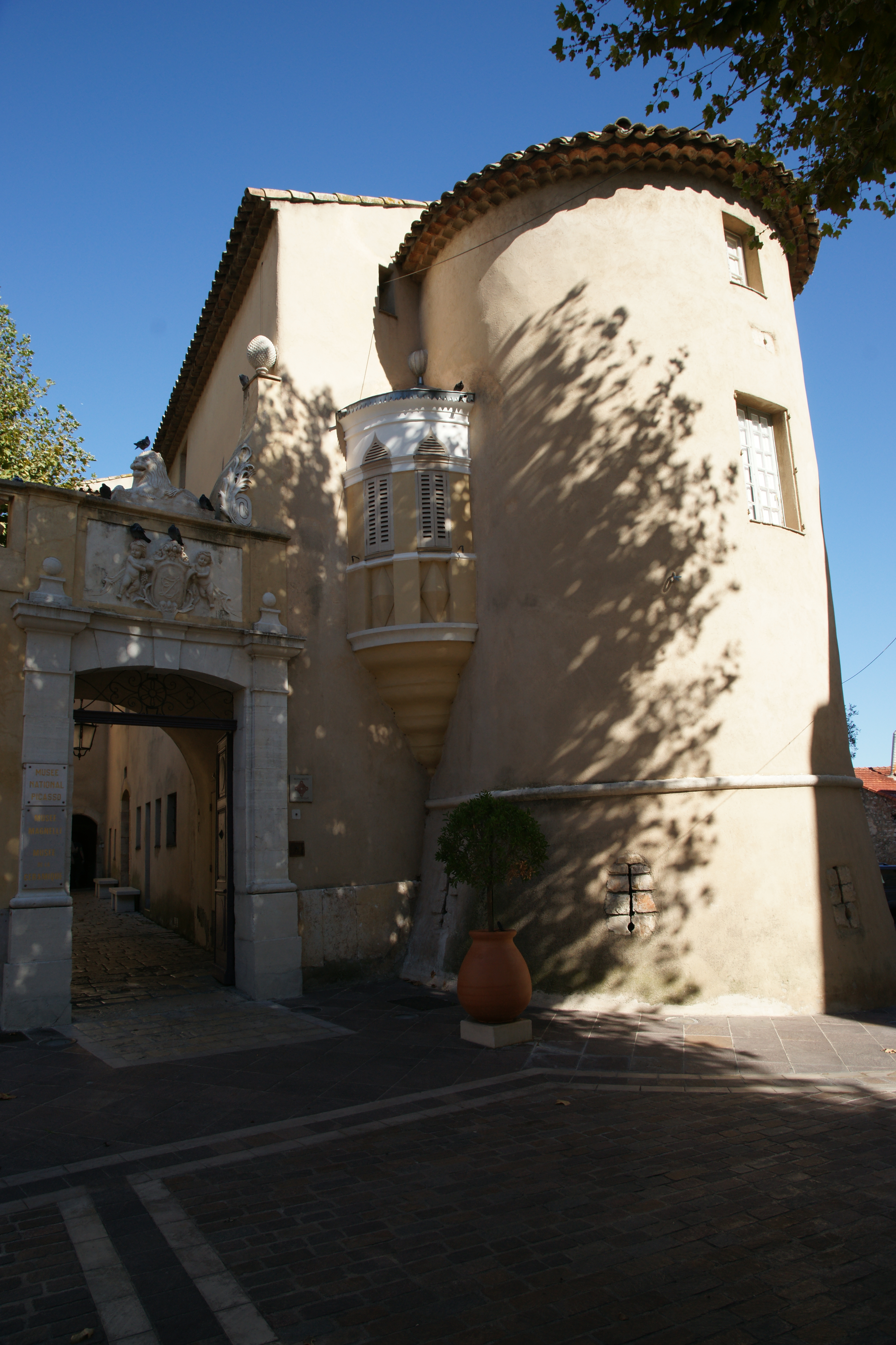 entry of Picasso museum, Vallauris, France